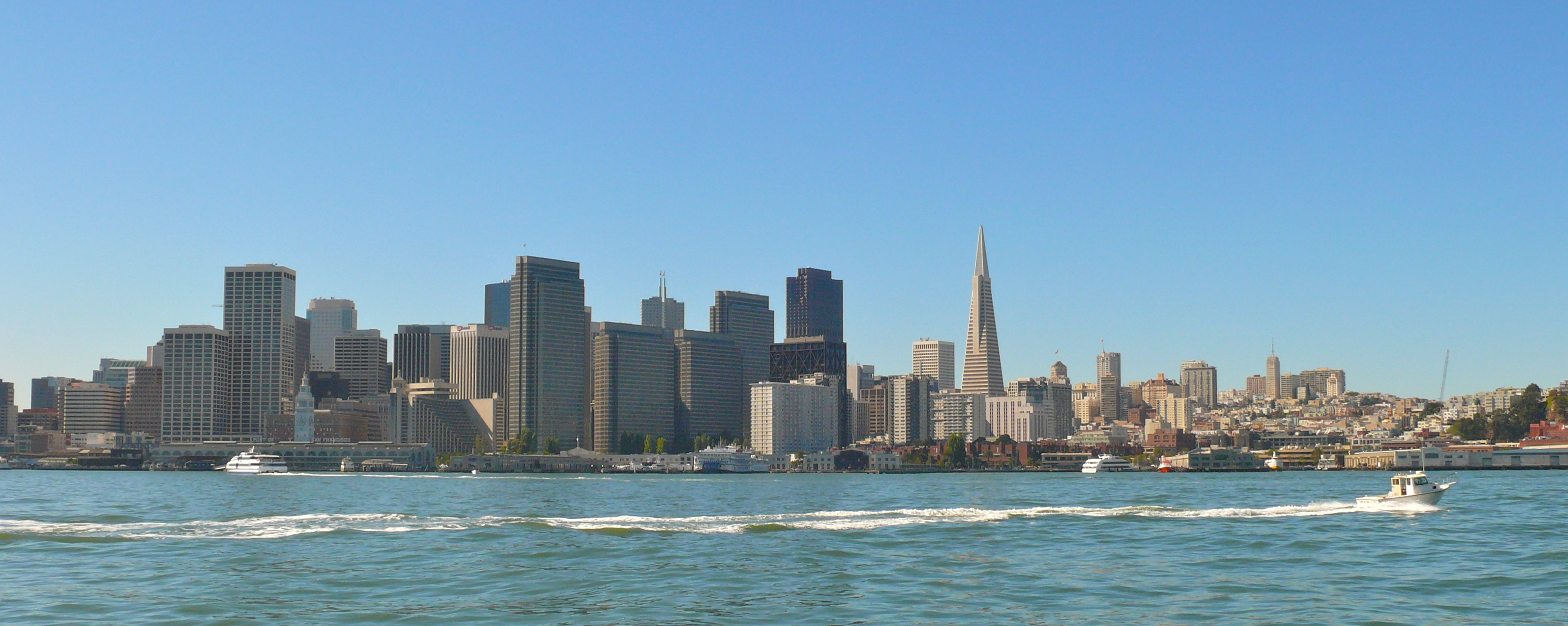 San Francisco Embarcadero from the water